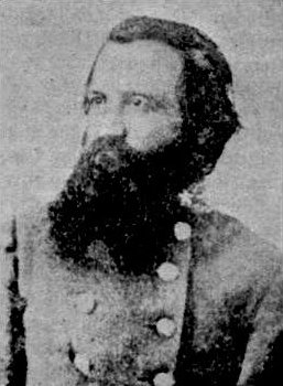 Picture of General James A. Smith taken during American Civil War. James Argyle Smith (July 1, 1831 – December 6, 1901), a United States Army officer, and a graduate of West Point. He was a Confederate brigadier general during the Civil War, worked in the educational system in Mississippi, and in the Bureau of Indian Affairs.